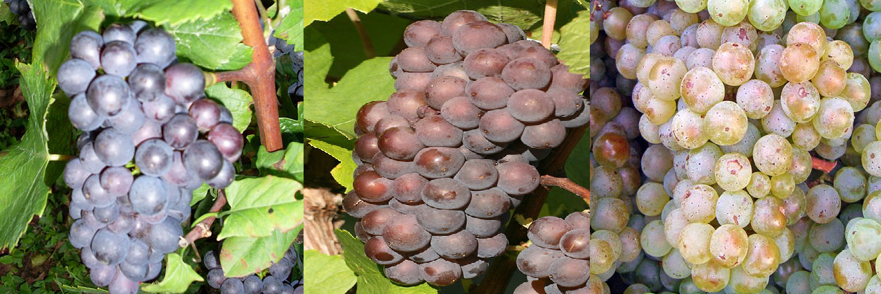 Tried to do with derivative X but apparently that is not working. This is a collage of cropped images from 3 commons files released under creative commons licenses. A.) File:Pinot noir Grappe de raisin.jpg by uploaded from Flickr under a Creative Commons Attribution 2.0 Generic B.) File:Rulaender Lehrensteinsfeld 20080928.jpg by Rosenzweig uploaded with a Creative Commons Attribution-Share Alike 3.0 Unported, 2.5 Generic, 2.0 Generic and 1.0 Generic C.) File:Pinot-blanc.jpg by User:Themightyquill uploaded with a Creative Commons Attribution-Share Alike 2.5 Generic